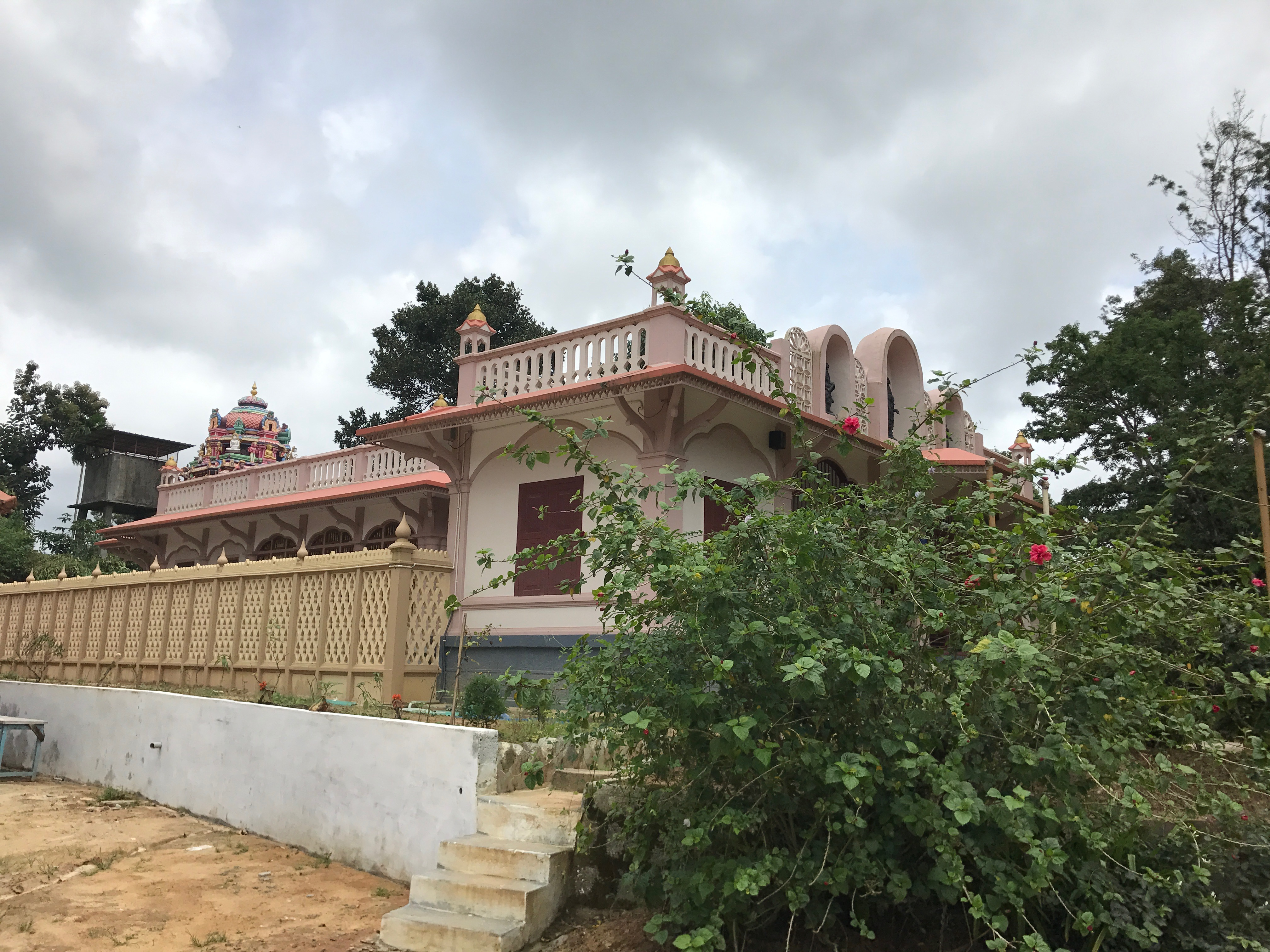 Jain temple with South Indian architecture